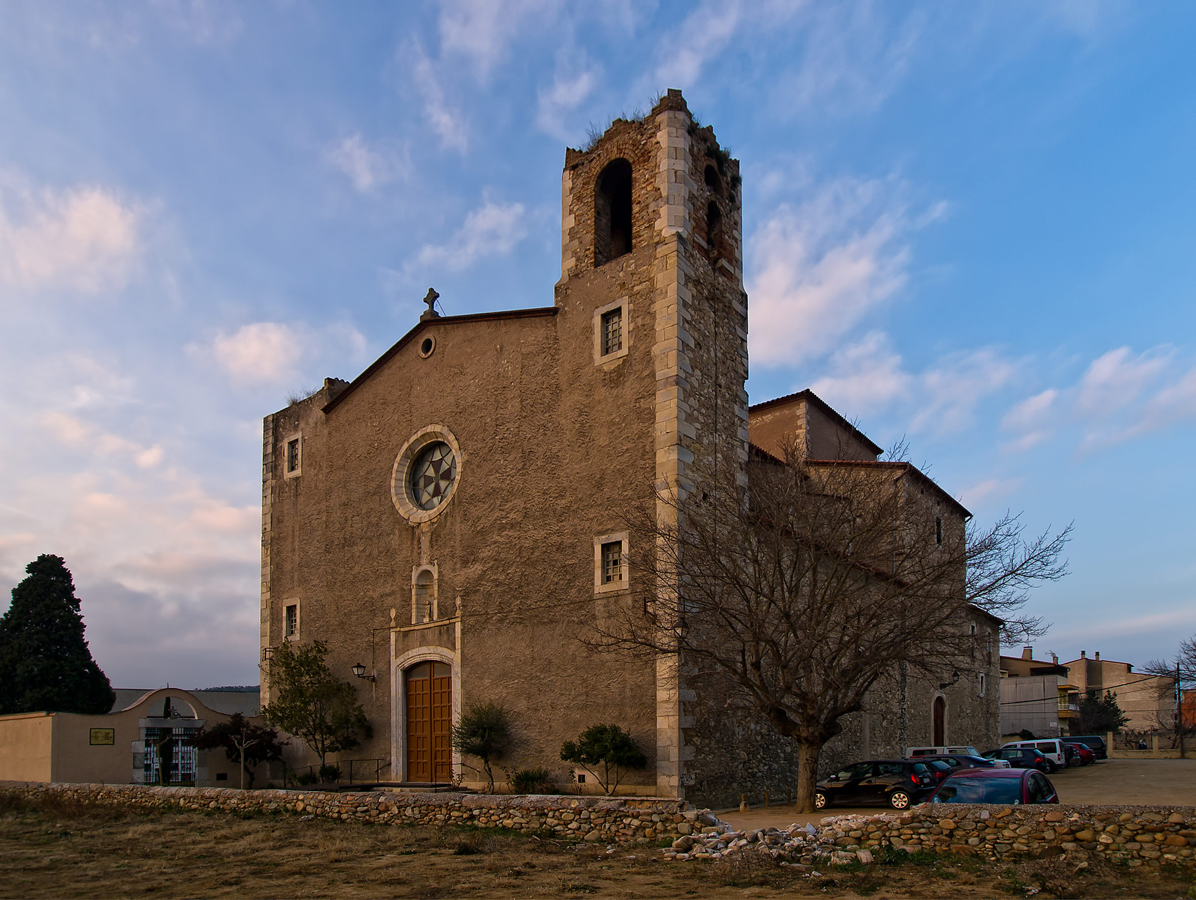 Sarria de Ter church (Catalònia, Spain)